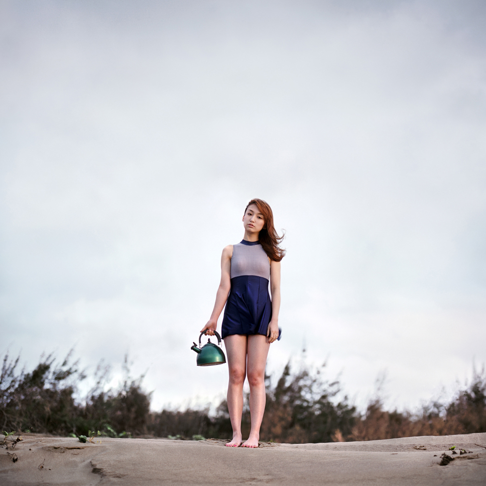 Fine art photography by Carla Liesching